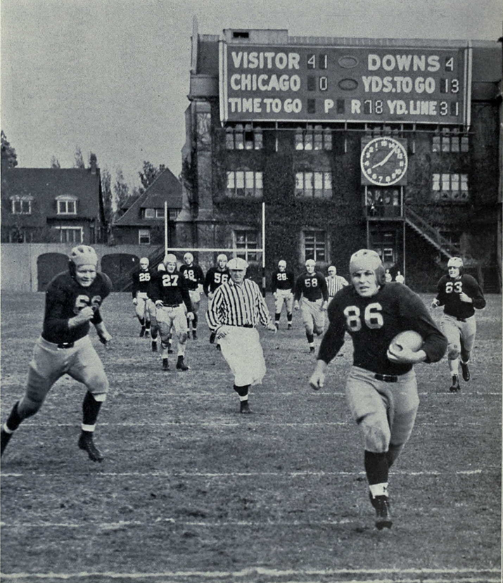 Photograph of Bob Westfall running for a touchdown against Chicago